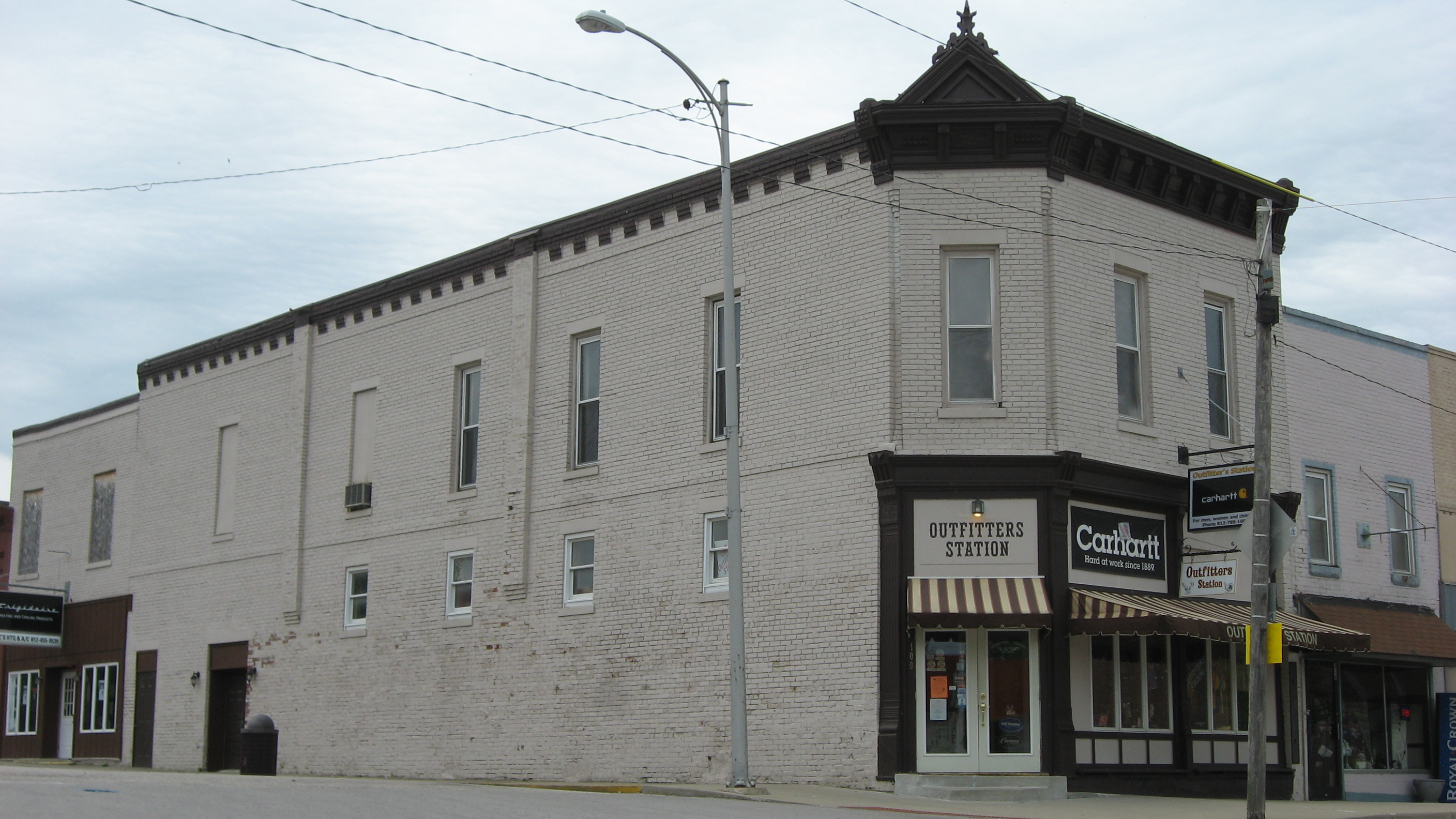 Front and northern side of the Palace Lodge, located on the southeastern corner of the intersection of Main (State Road 61) and Center Streets in downtown Winslow, Indiana, United States. Built in 1892, this former grocery store is listed on the National Register of Historic Places.